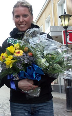 Emelie Öhrstig beeing honored in Pietå, Sweden 2005. After winning the world championship sprint in Obersdorf 2005.